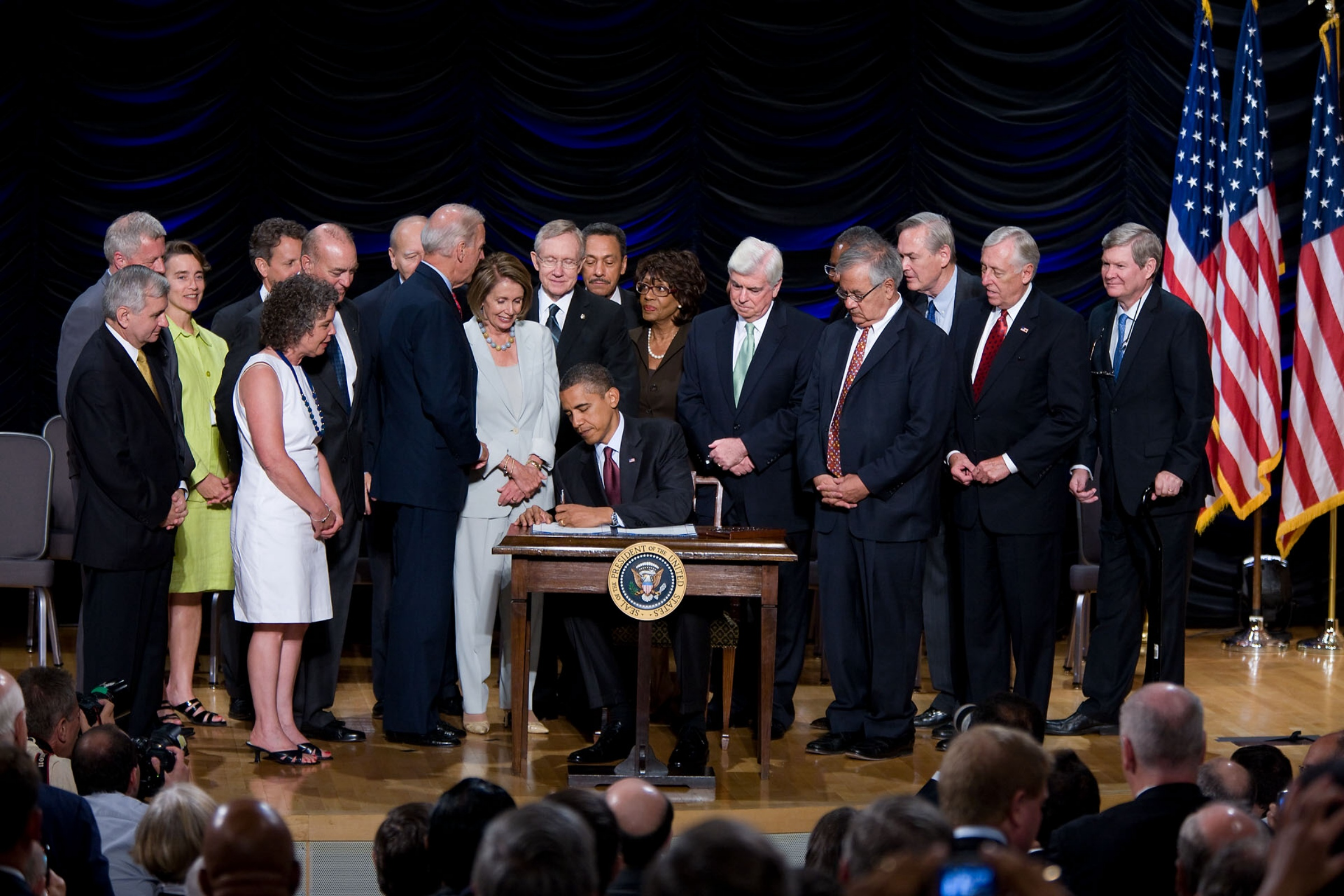 President Barack Obama delivers remarks and signs the Dodd-Frank Wall Street Reform and Consumer Protection Act at the Ronald Reagan Building in Washington, July 21, 2010. (Official White House Photo by Lawrence Jackson)